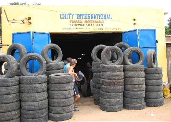 Looking for tyres of the right size